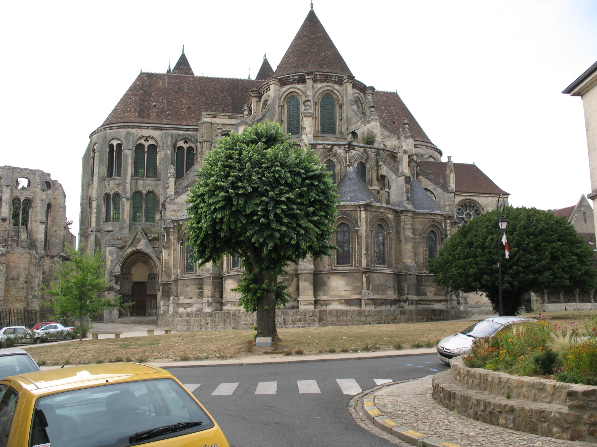 Cathedral of Noyon